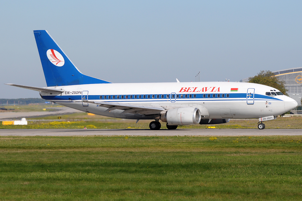 Belavia Boeing 737-500 on its takeoff run in Frankfurt Rhein-Main Int'l Airport